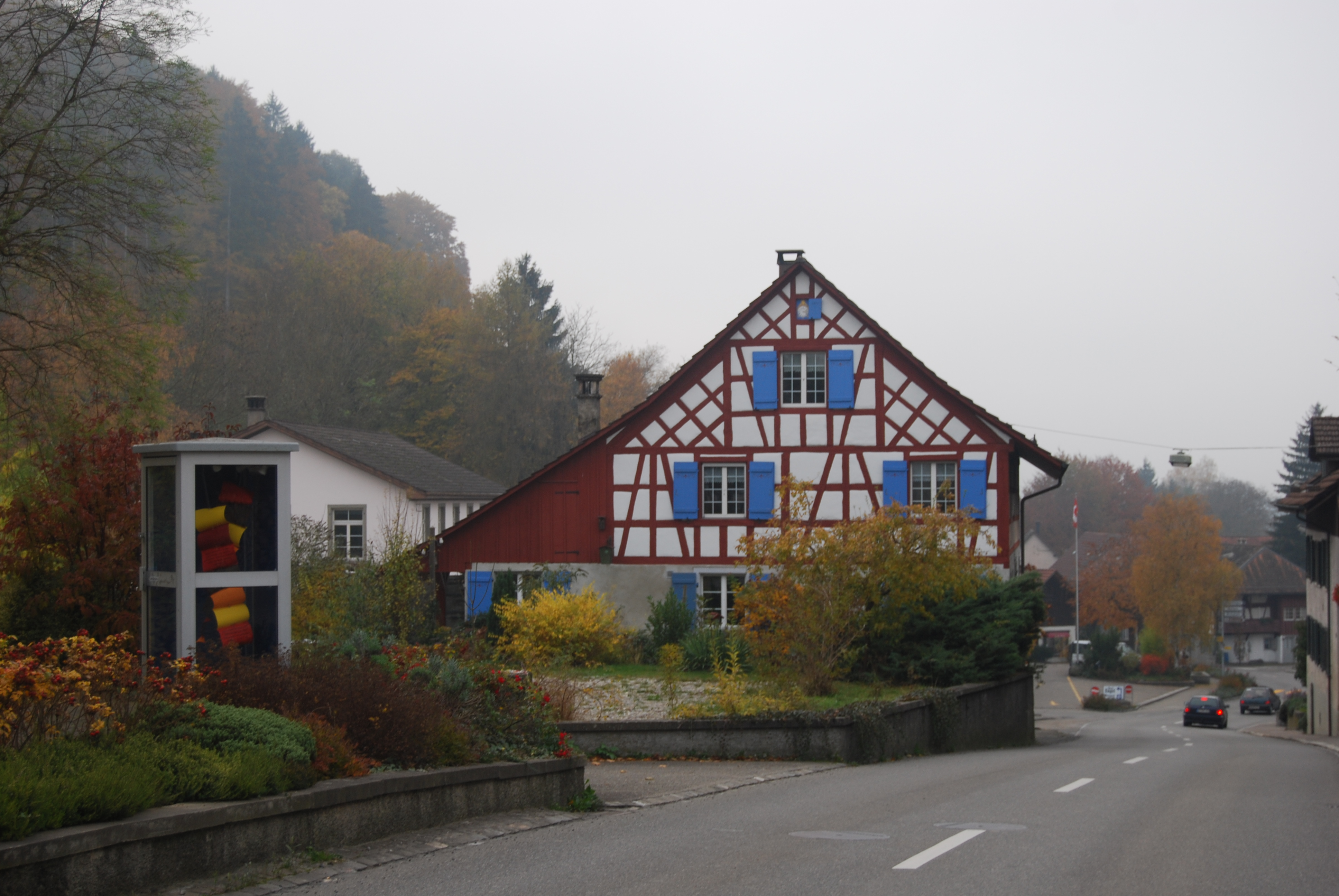 Timber framing house at Flaach, canton of Zürich, SwitzerlandEsperanto: Faktrabdomo en Flaach, Kantono Zuriko, Svislando